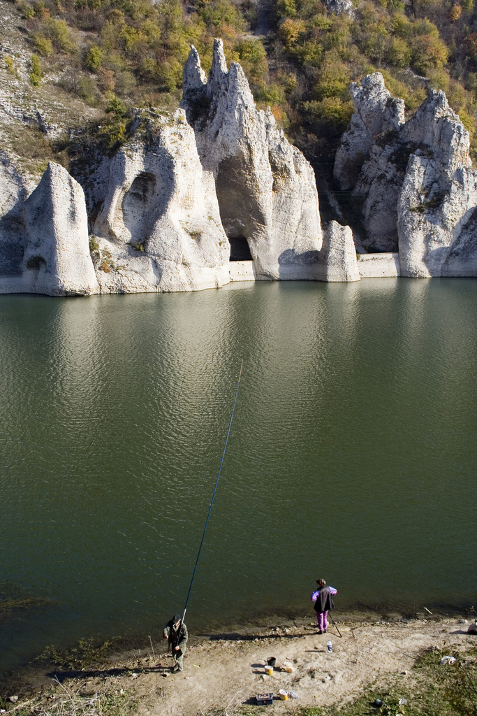 "The Wonderful Rocks" - Tsonevo (Georgi Traikov dam), Varna Province, Bulgaria.